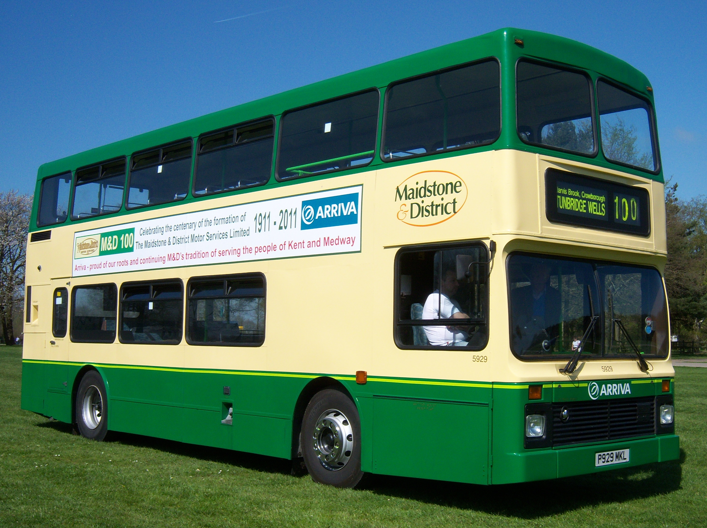 Arriva Kent & Sussex bus 5929 (reg. P929 MKL) in the last version of M&D livery, pictured at the M&D 100 rally on the Kent County Showground in Detling.